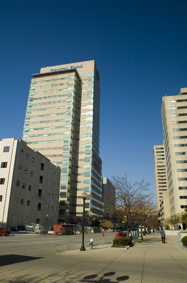 Kincaid Towers looking west along Vine Street towards Central Bank.